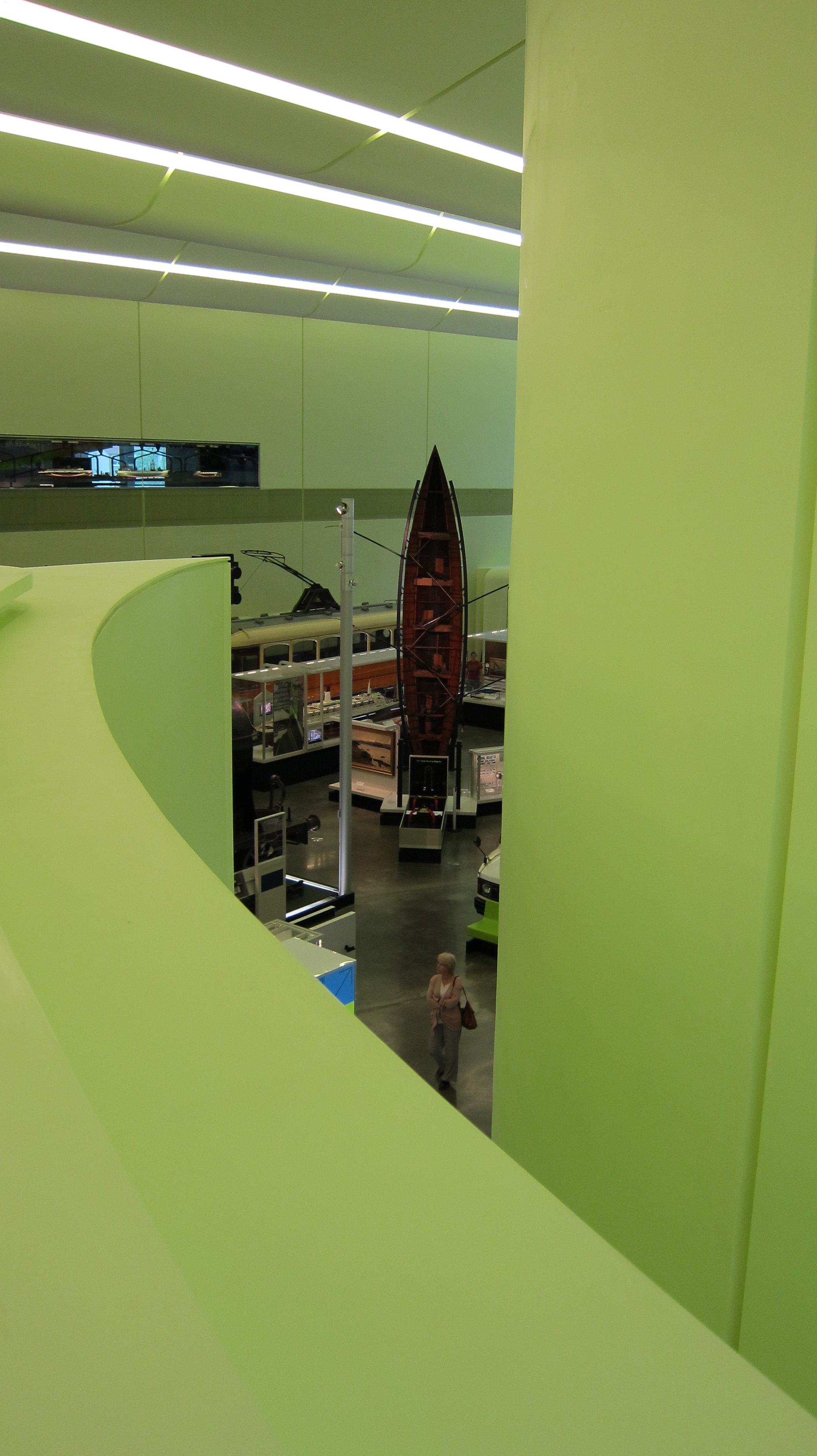 interior of building